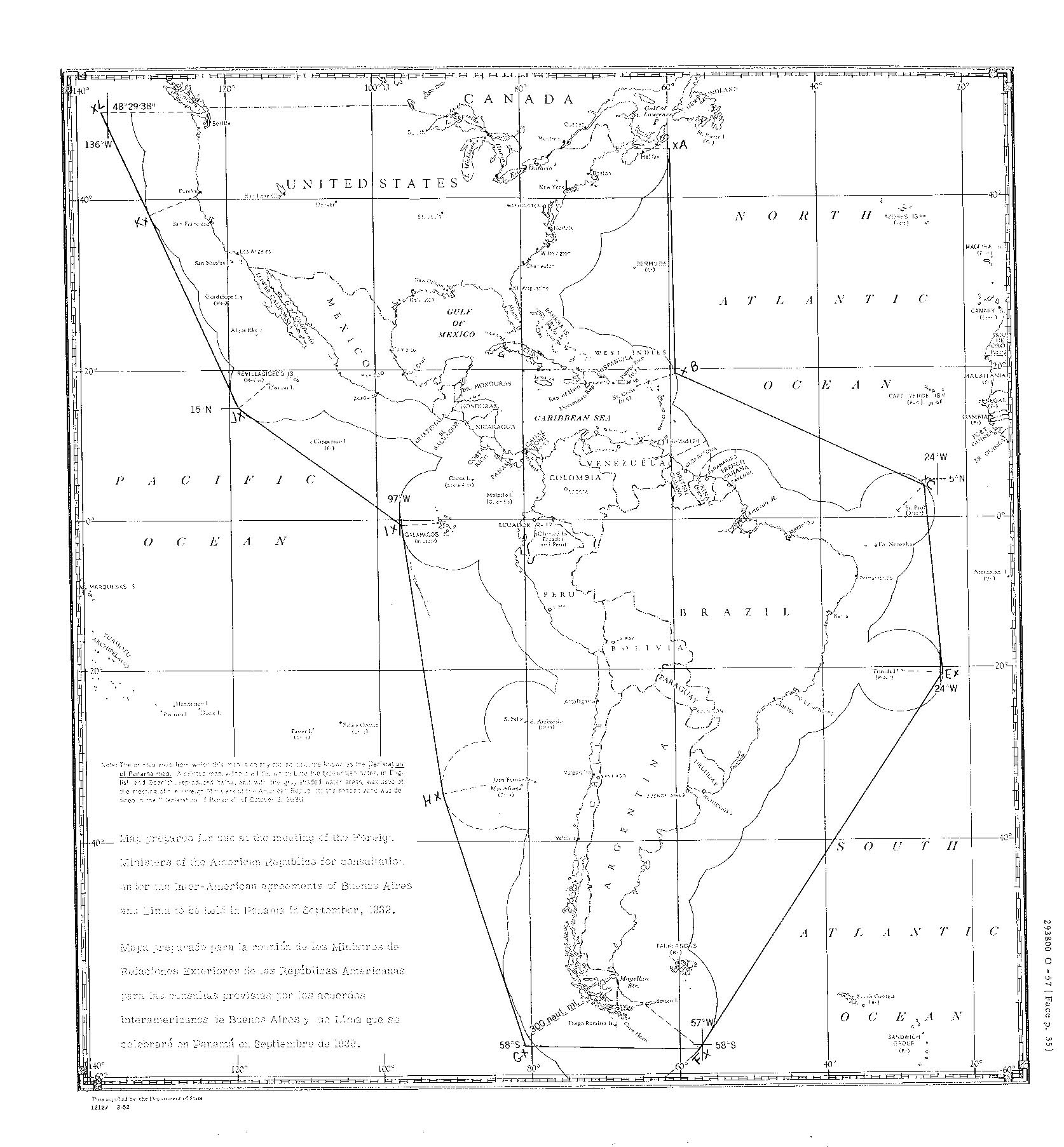 A draft map used as the basis of the Declaration of Panama, 1939. The hand drawn straight lines between the marks "x" labelled "A" to "L" (missing "D") were personally drawn by President Roosevelt. The points are on arcs prepared by a draftsman 300 nautical miles from the coast, so the area defined mostly exceeds 300 nautical miles offshore. These points were used as the basis of the textual description defining the area in the Declaration of Panama.[1]